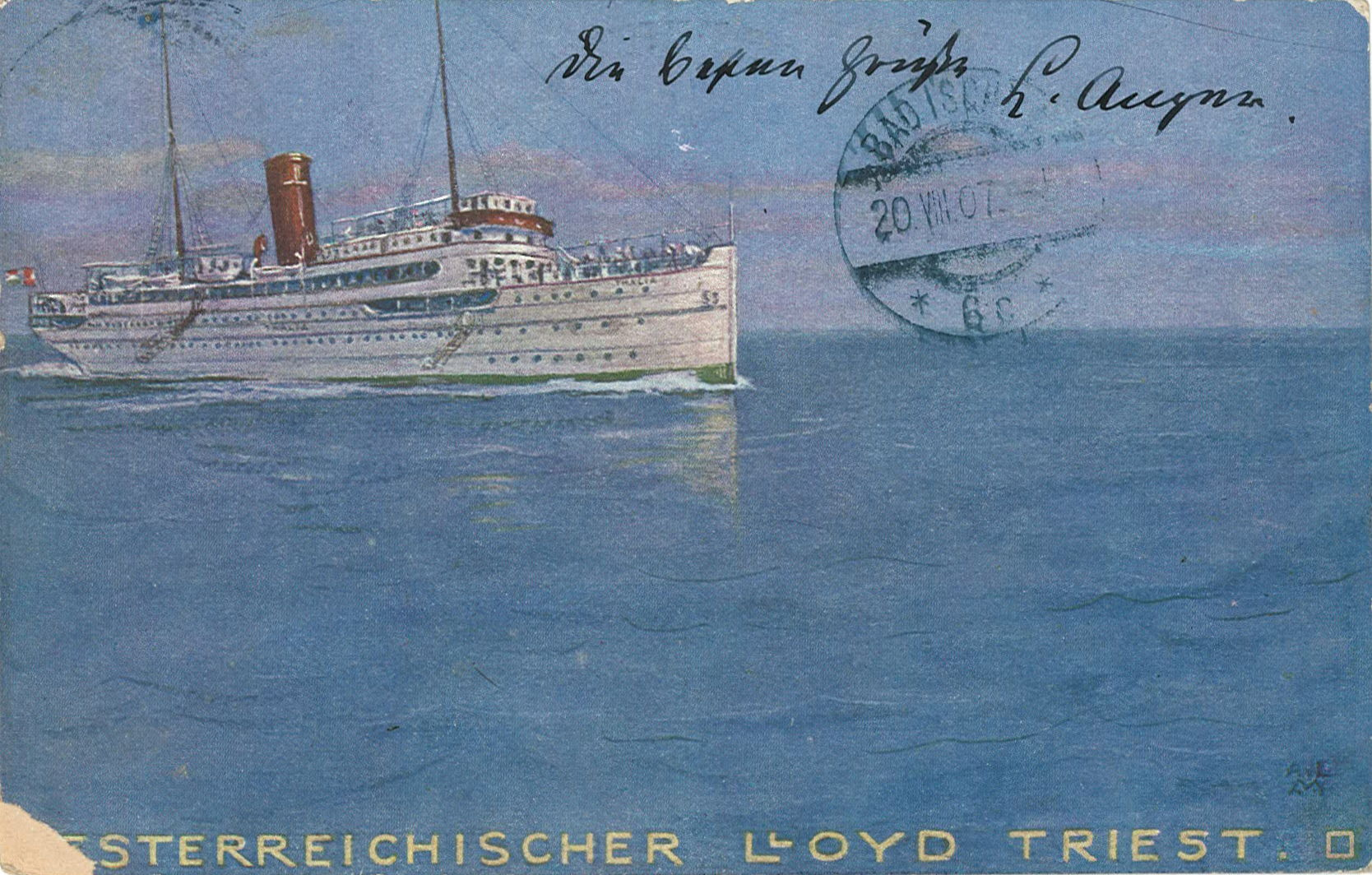 Postcard with a Photograph of SS Thalia, Austrian Lloyd (before 1908), by Alphons Leopold Mielich (+ 1929), stamped 1907